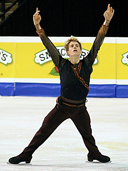 Jeffrey Buttle does an inside spread eagle in his long program at the 2004 Four Continents Championships in Hamilton, Ontario. Photo by me, Vesperholly 20:31, 17 July 2006 (UTC) Category:Figure skating